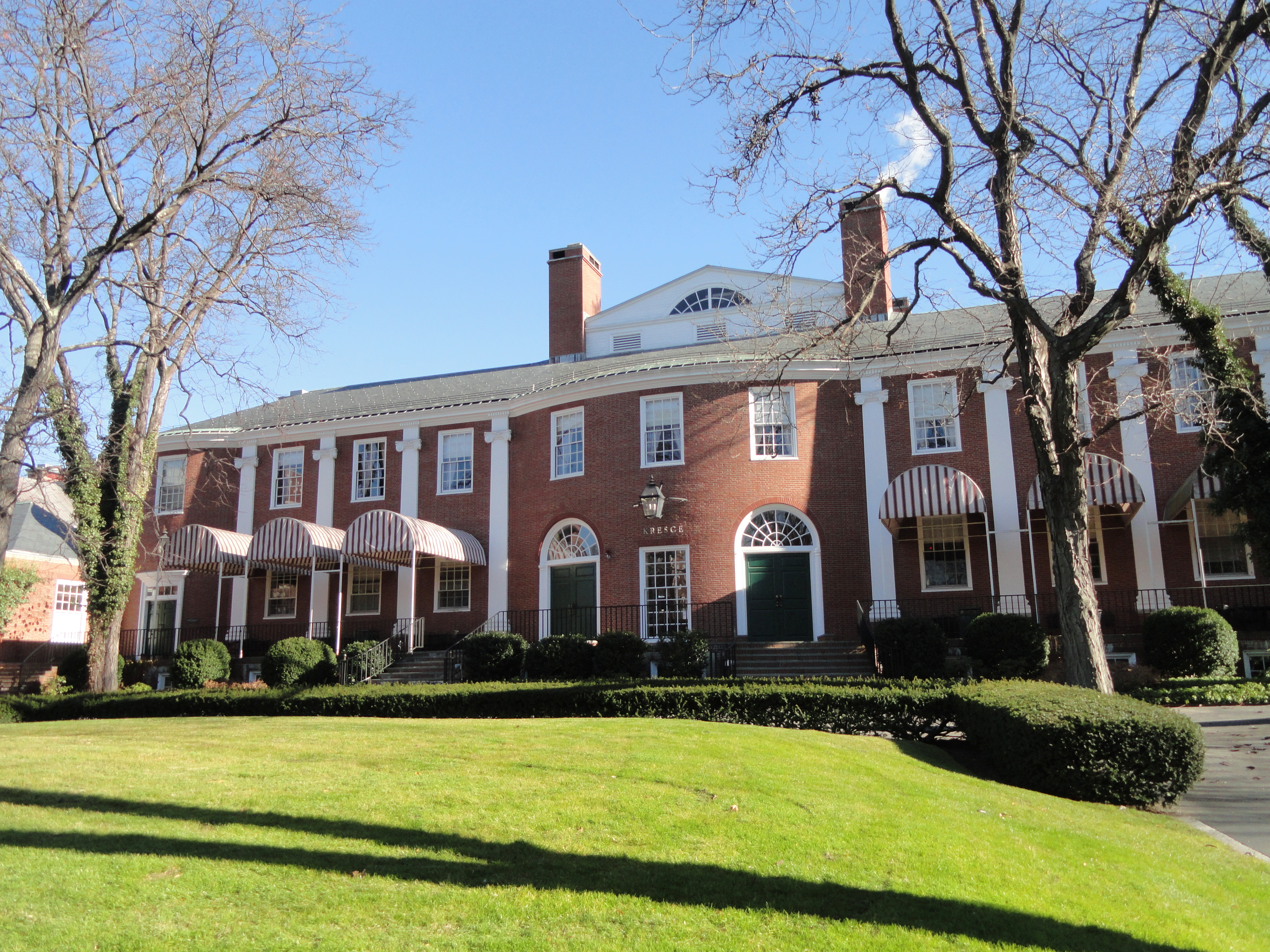 Harvard Business School, Allston, Boston, Massachusetts, USA.